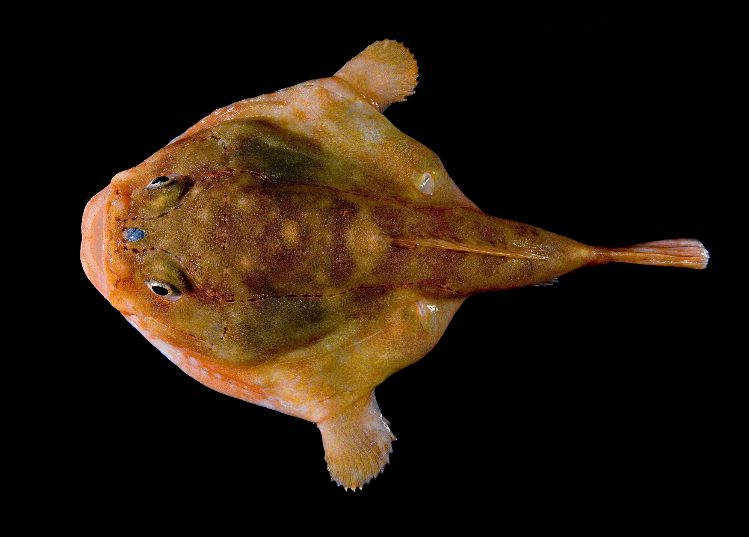 Chaunax stigmaeus from offshore North Carolina. Specimen is approximately 20cm long.